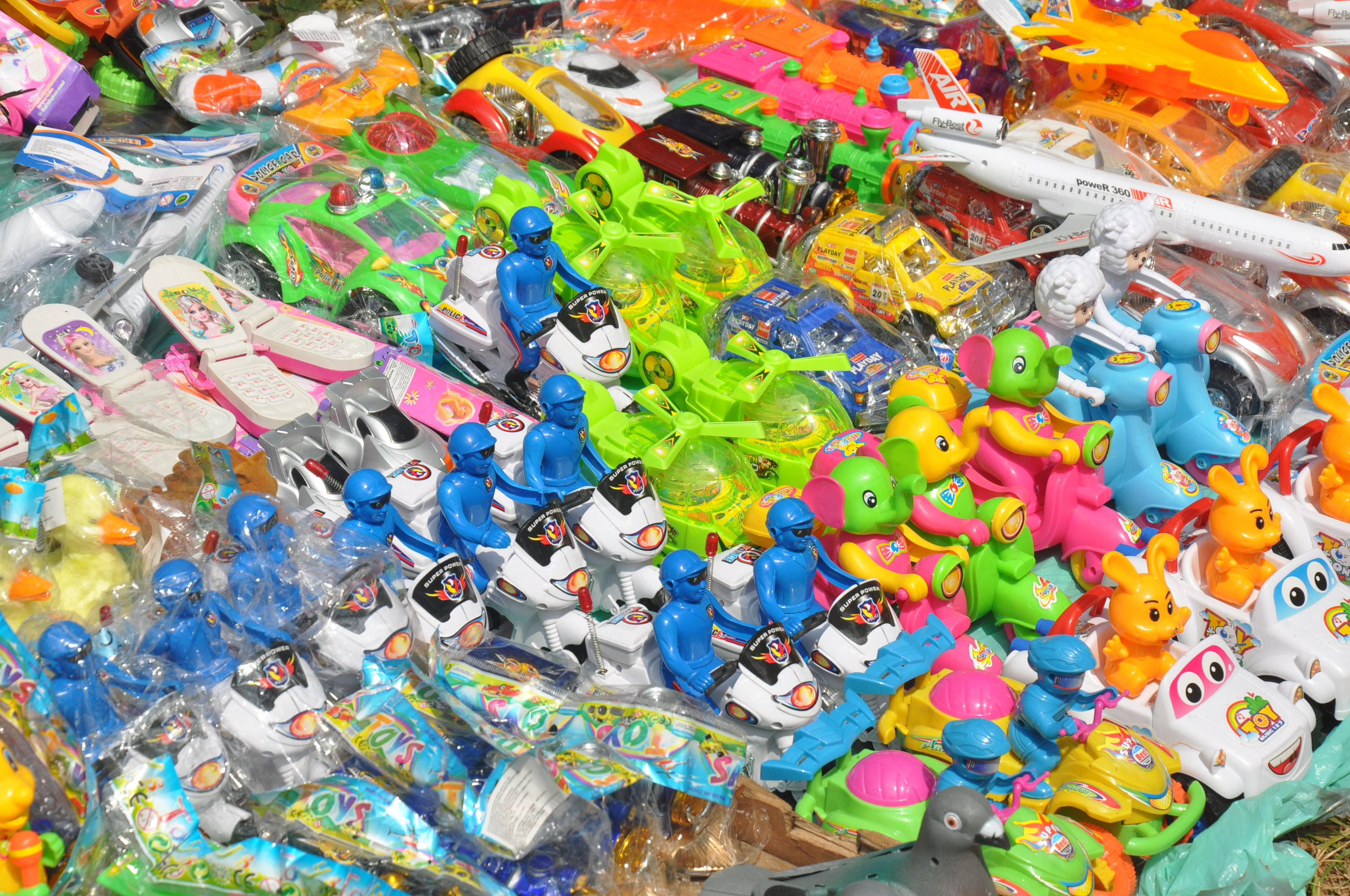 This media file is uploaded with India loves Wikipedia event. Chineese plastic toys